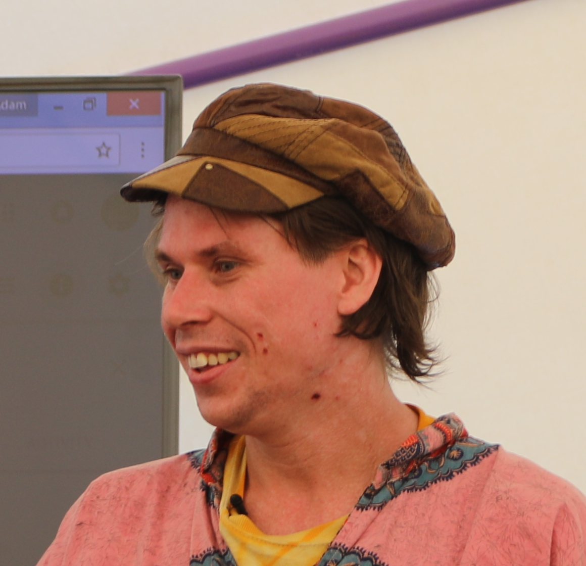 Photo of Lauri Love speaking at byline festival